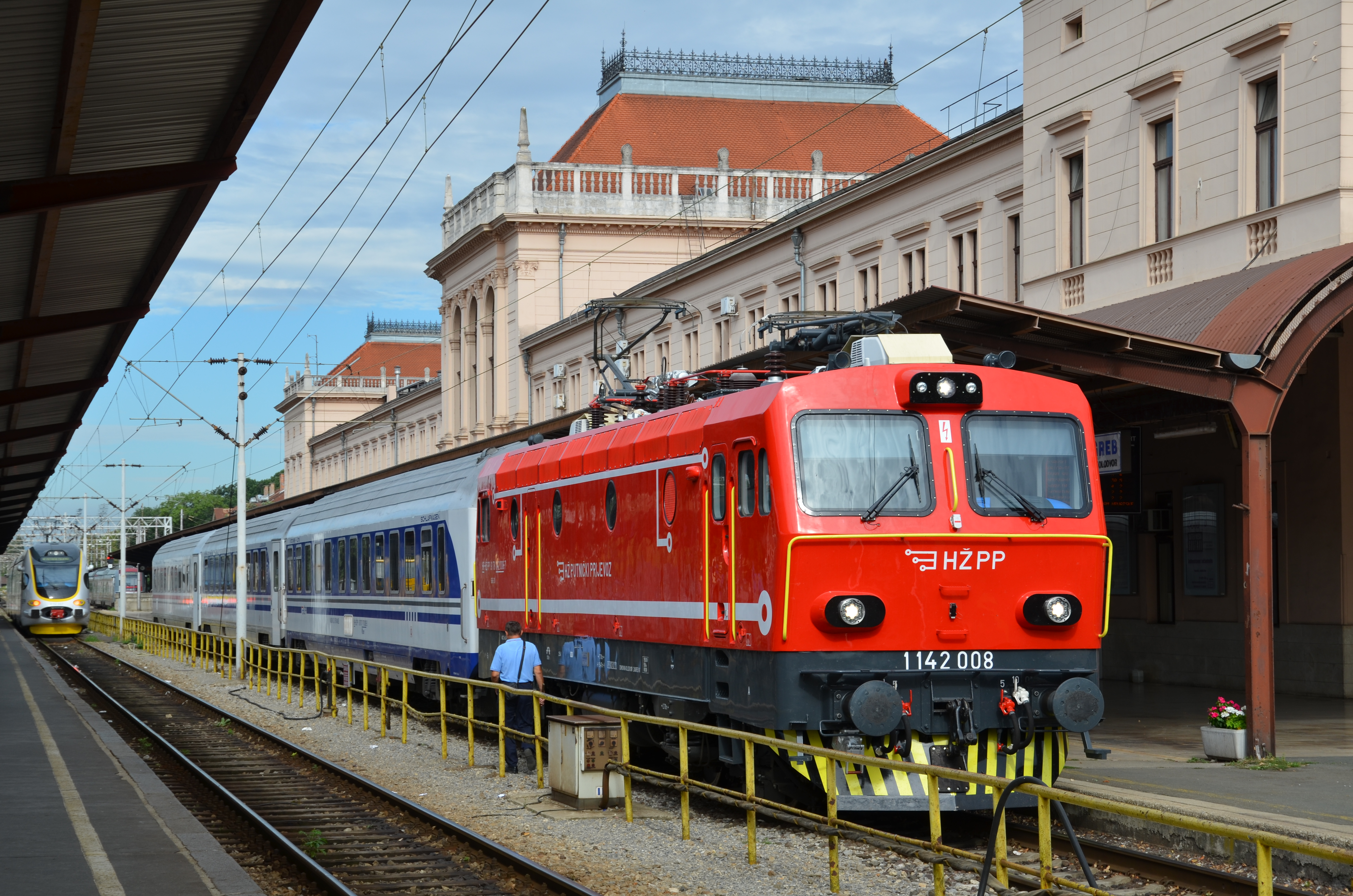 HŽ 1142 in new livery after arrival with train EN 50463 08:36 from München Hbf